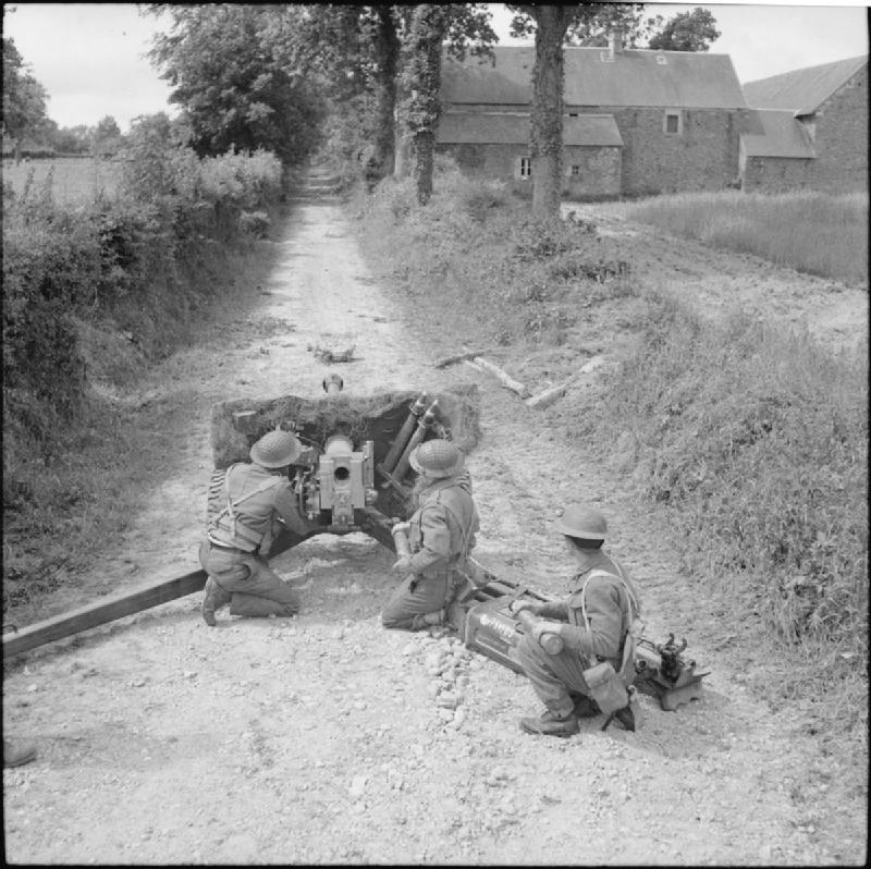 The British Army in the Normandy Campaign 1944 6-pdr anti-tank gun of 50th Division covers a lane in the Lingevres area, 16 June 1944.